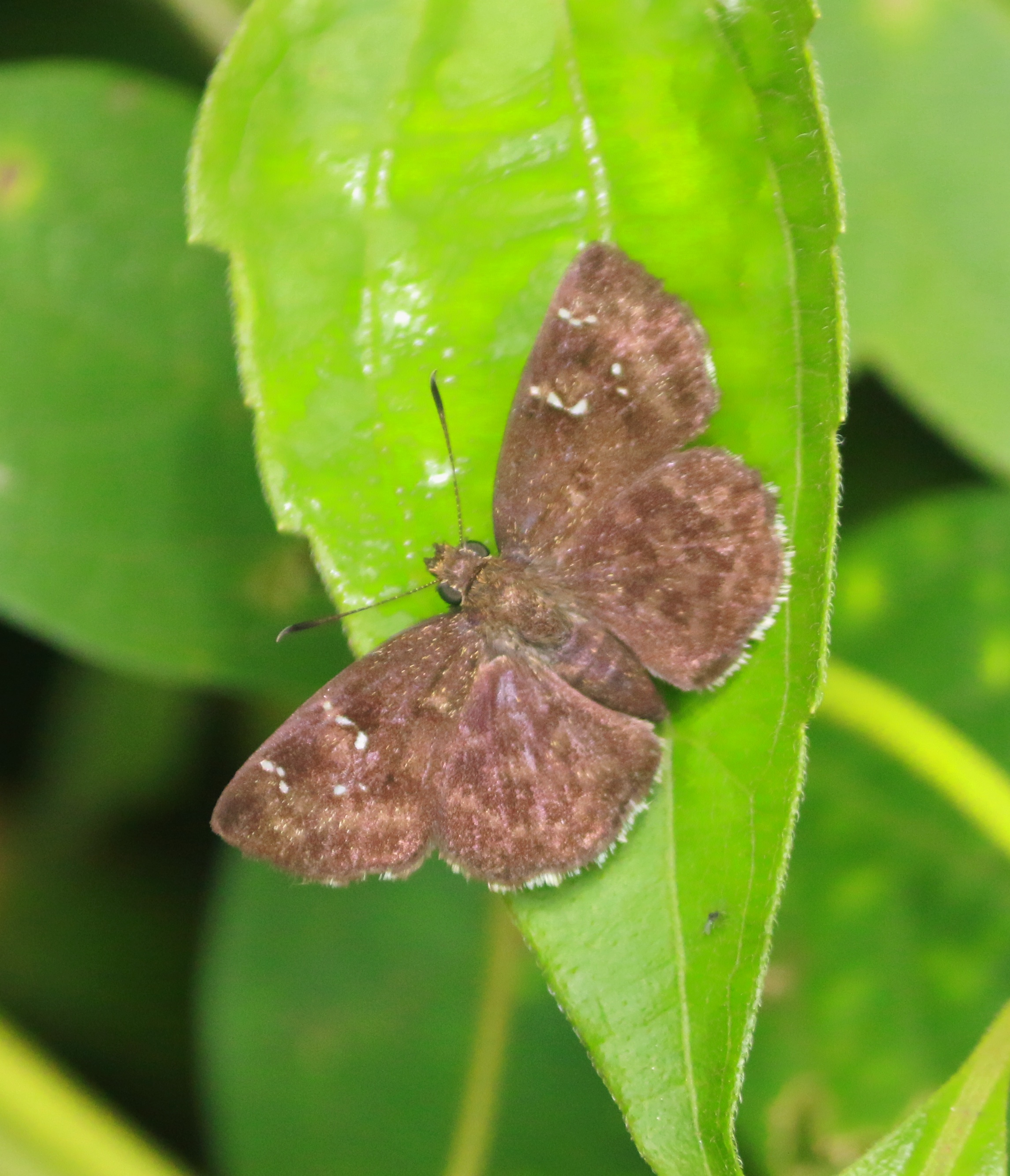 Common small flat,Sarangesa dasahara from koottanad Palakkad Kerala